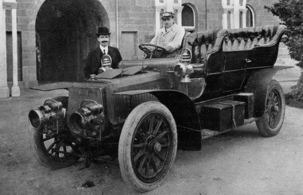 Panhard car in which J. W. Blair made a record motor trip of 3000 miles across Queensland, 1908. Caption on photograph: 'The Overlander' The Panhard car fitted with Continental Tyres in which Hon. J.W. Blair made its record motor trip of 3000 miles across Queensland. Two of the tyres shown in the picture have travelled 8000 miles. The portraits are Mr Hall (Mr. Blair's chauffeur) seated in car, and Mr. E.W. Clisby, Queensland representative for Continental Motor Tyres. Note that there is no hood or windscreen. This Panhard Et Levassor car was manufactured in France. Characteristics include acetylene head lamps and oil side lamps which could point to a 1906 model.